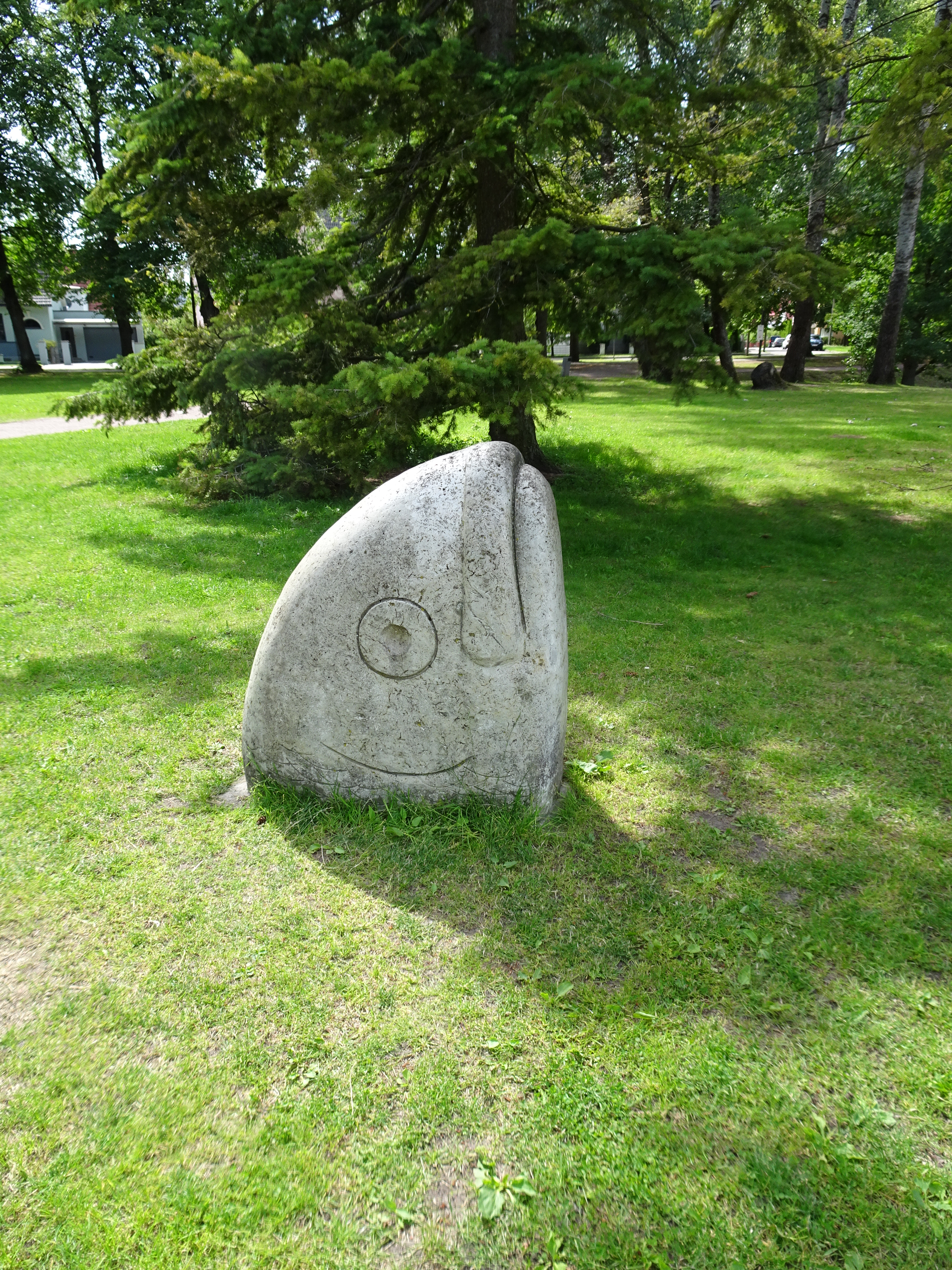 Sculpture Vallikraavivaht, dedicated to perished fishes in Pärnu, Estonia